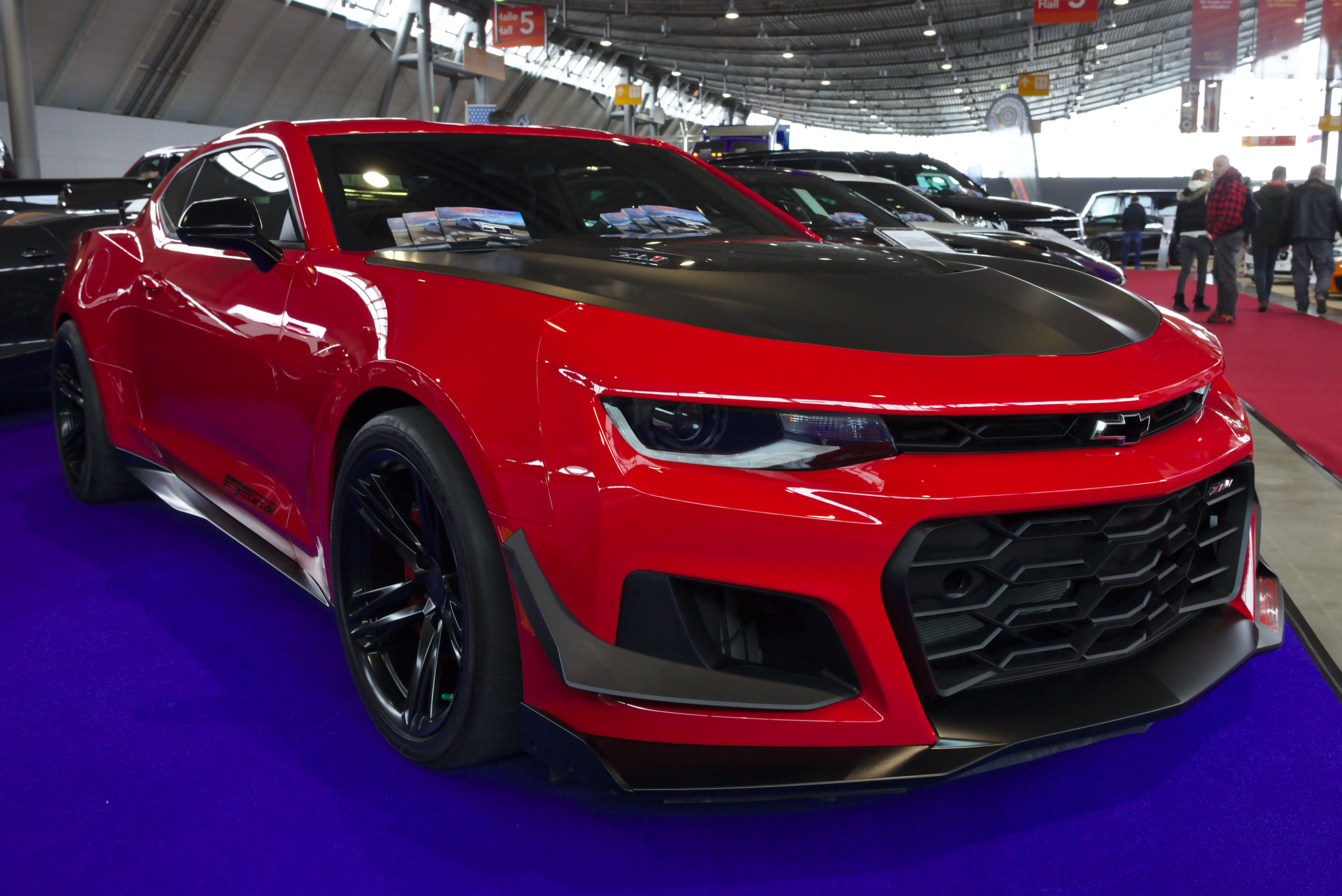 Chevrolet Camaro ZL1 at Retro Classics 2018